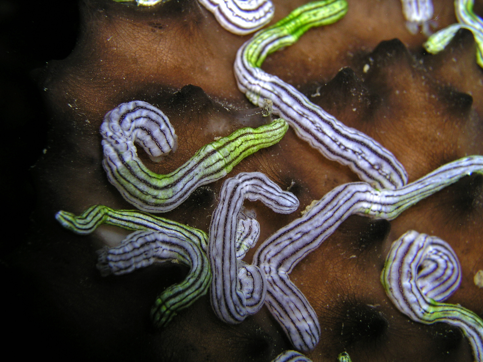 Synaptula lamperti' (Sea_cucumber) often found in association with big sponges clinging to the outside in groups.